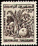 Tax_stamp_-20_millimes_-_Tunisia_-_1960